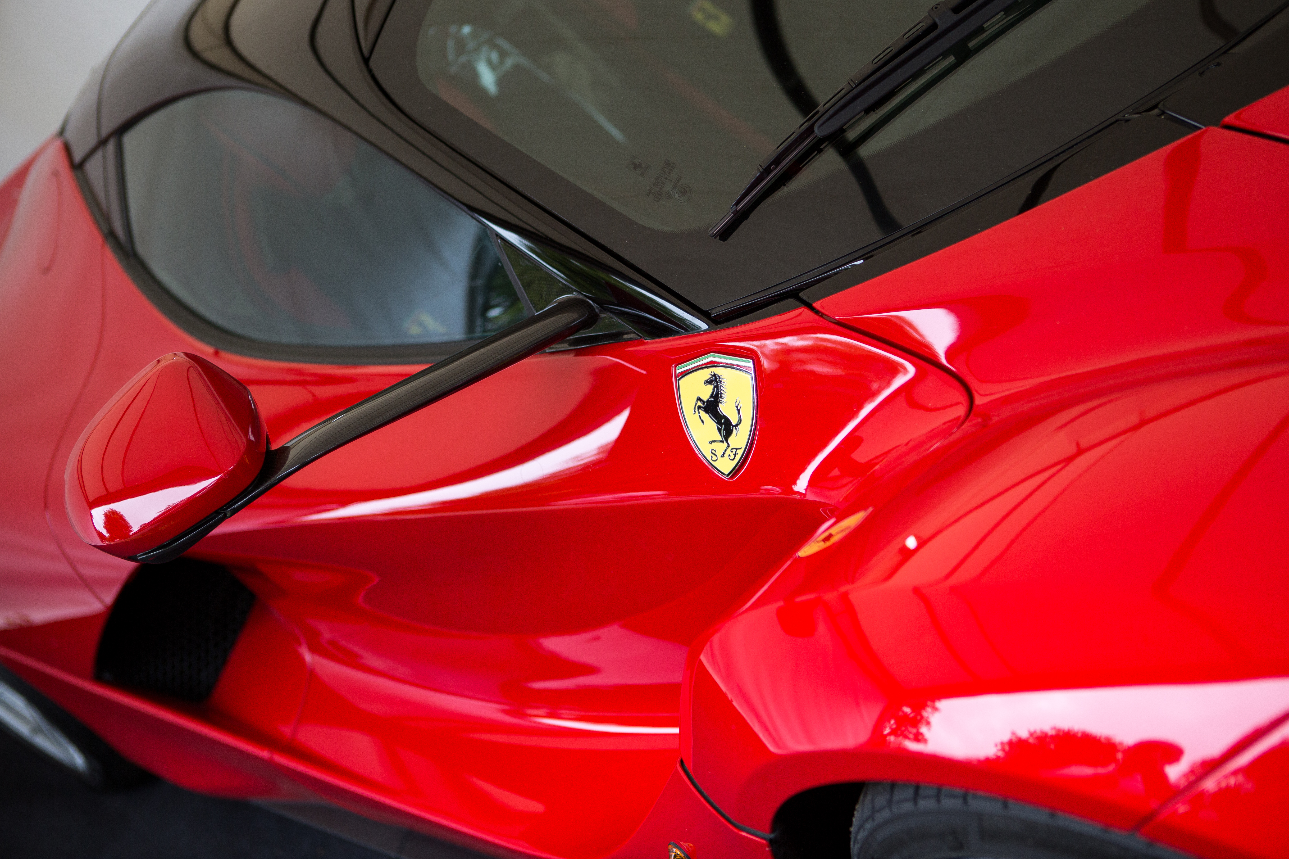 The LaFerrari at the 2014 Goodwood Festival of Speed.